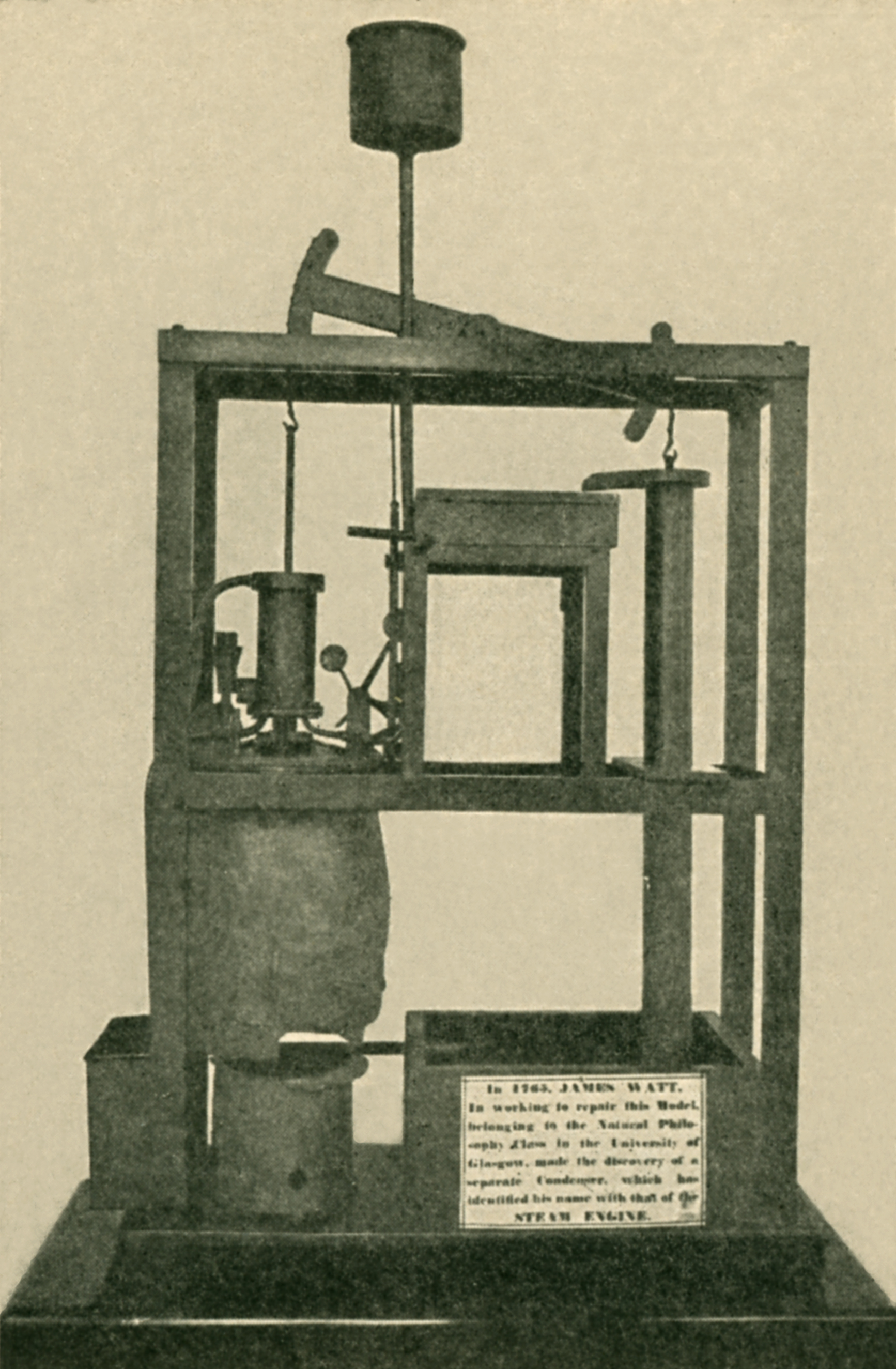 Photo of model Newcomen steam engine at the University of Glasgow, Scotland, which was repaired by James Watt. He used this model to test his separat condensor, inventing the modern steam engine. Caption (model): In 1764, James Watt. In working to repair this Model, belonging to the Natural Philosophy Class in the University of Glasgow, made the discovery of a separate Condenser, which has identified his name to with that of the Steam Engine. Original caption (book): 'The Newcomen engine, in the repairing of which Watt was led to his great discoveries. Preserved in the University of Glasgow.'